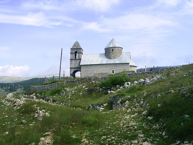 Vojnik Mountains in Montenegro